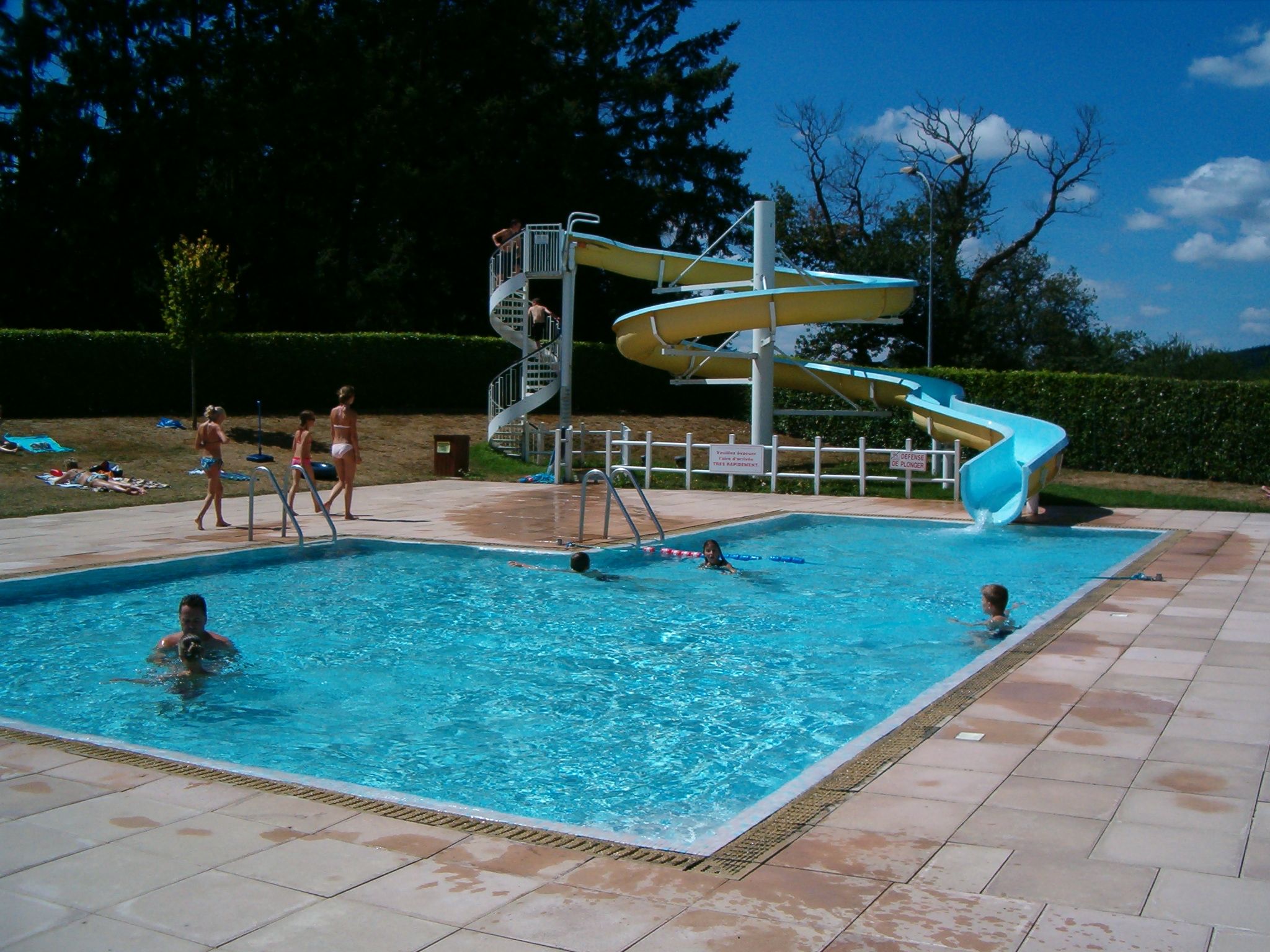 A picture of a swimpool in France, self made.